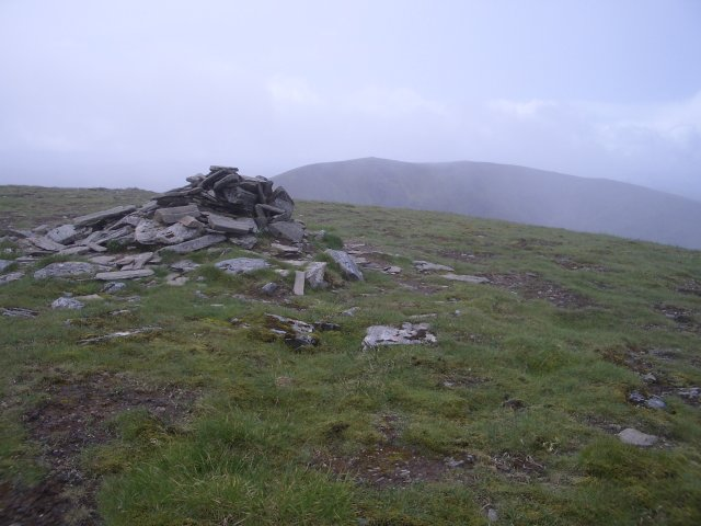 Aonach Beag Aonach Beag is a steeply sided hill on all sides but levels to a small plateau on the summit. Beinn Eibhinn beyond the cairn.